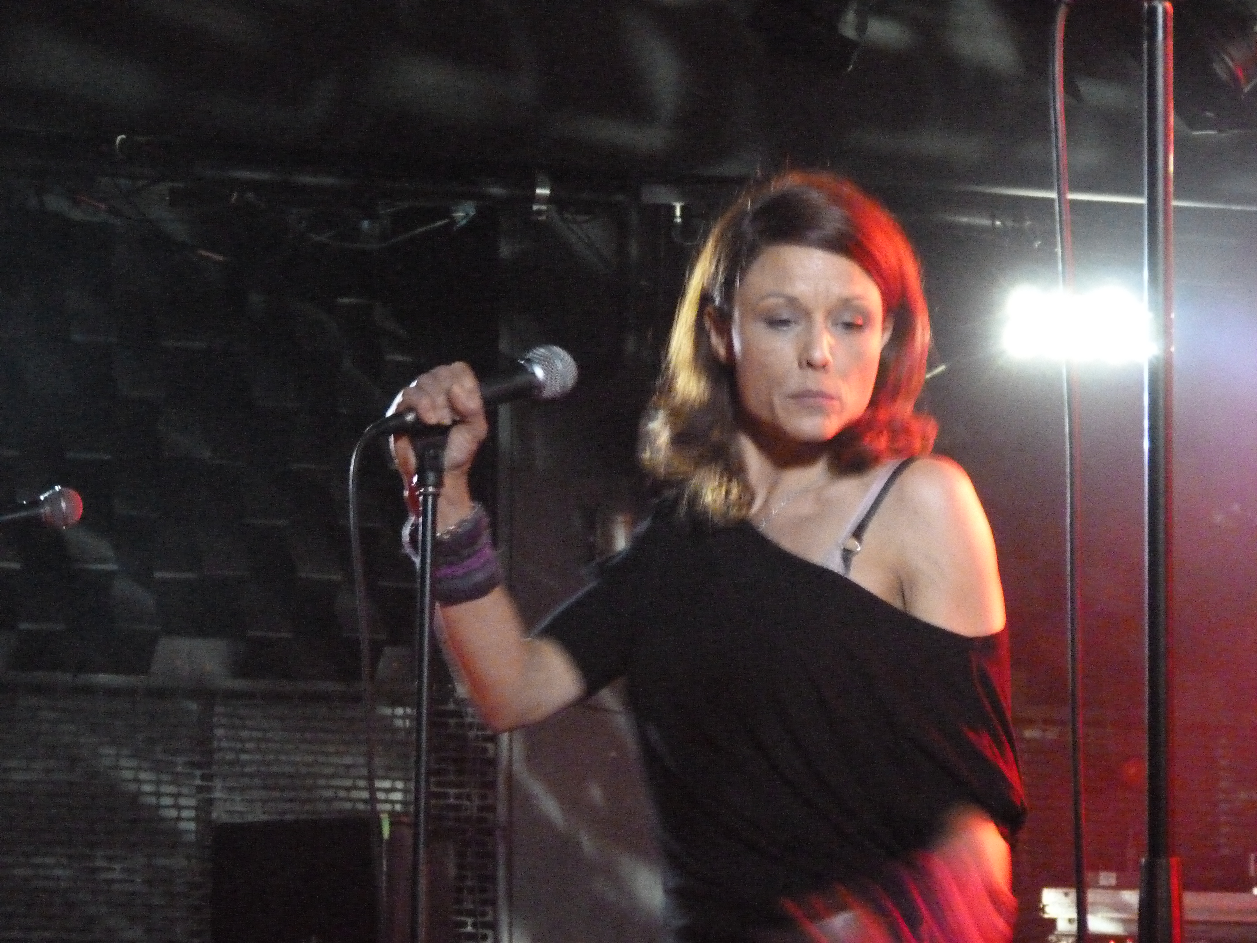 Live on the 31st of December, 2014. NYE. Budapest, Hungary. A38 ship. ©© Derzsi Elekes Andor, Budapest, 2014, Published in the Metapolisz DVD line. You are authorised to use this vid under Creative Commons – even for commercial, for profit purposes. The vid must be attributed to Derzsi Elekes Andor. All of the photos and vids in the Metapolisz DVD line are under Creative Commons and can be used even for commercial – for profit – purposes. Recommended Citation Derzsi Elekes Andor: Metapolisz DVD line